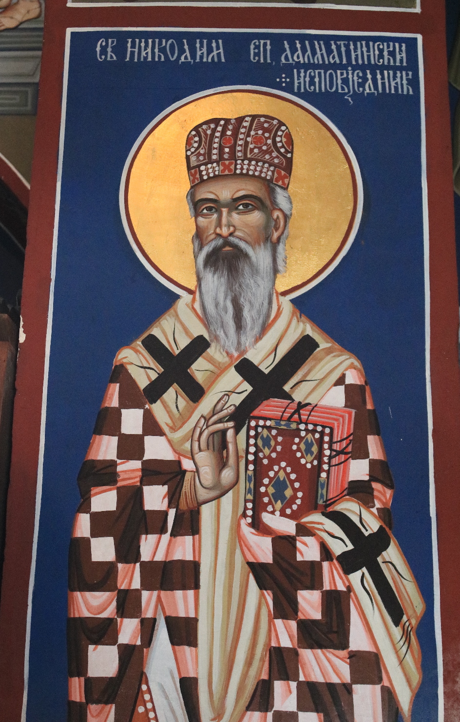 A frescoe Saint Nikodim, Krka monastery